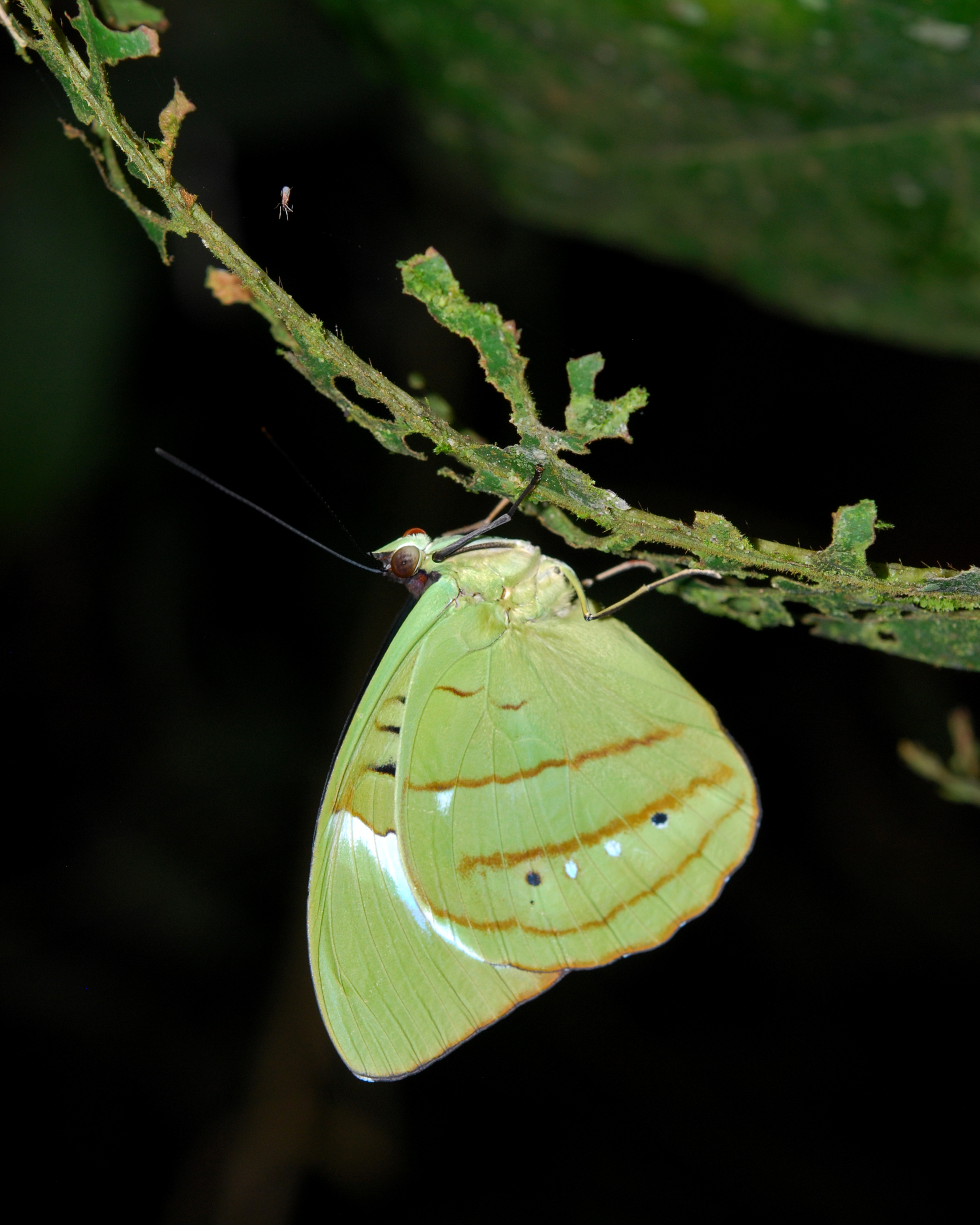 Nessaea hewitsoni roosting in Yaupi